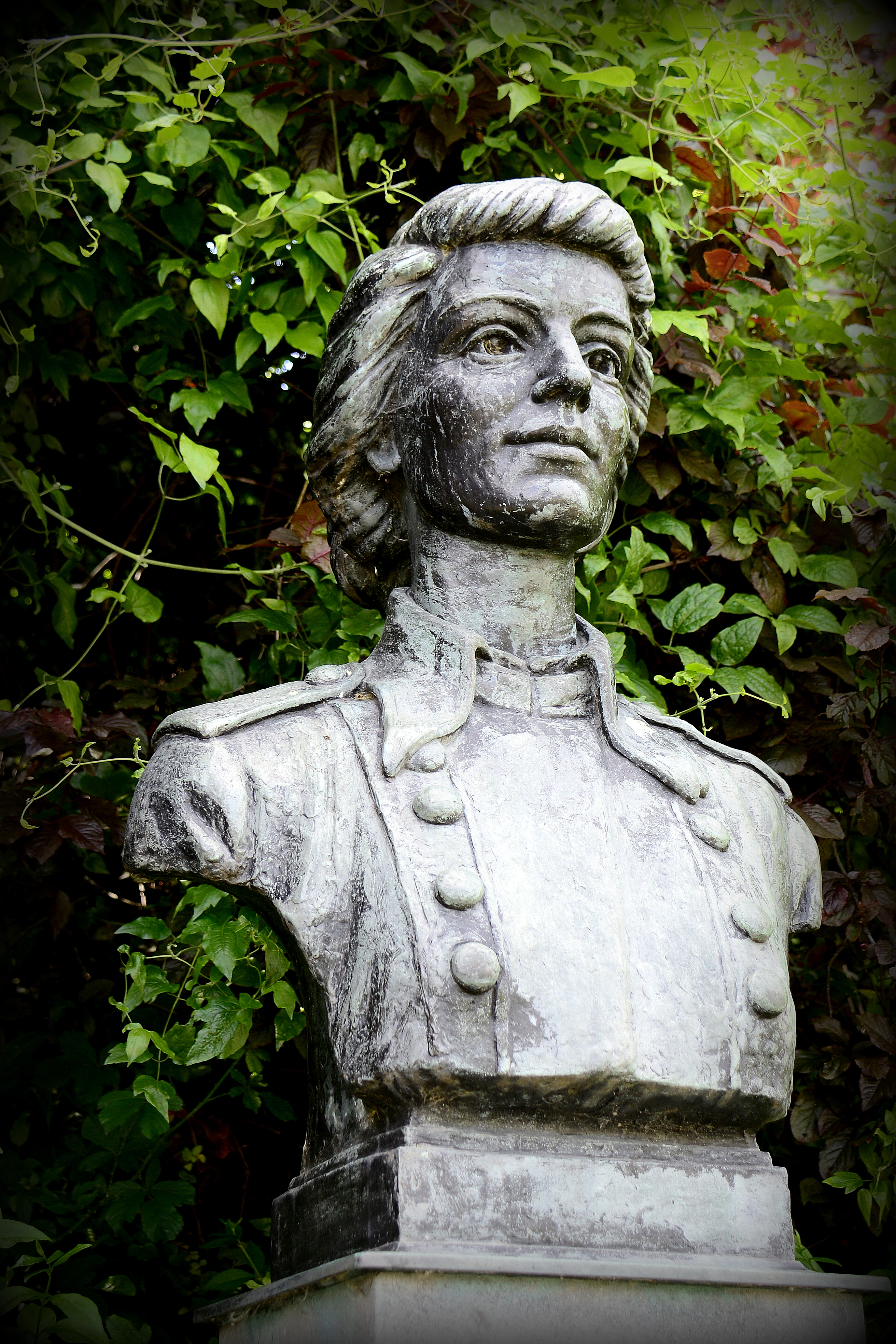 The bust reads "Constance Markievicz. Major. Irish Citizen Army. 1916. A valiant woman who fought for Ireland in 1916."